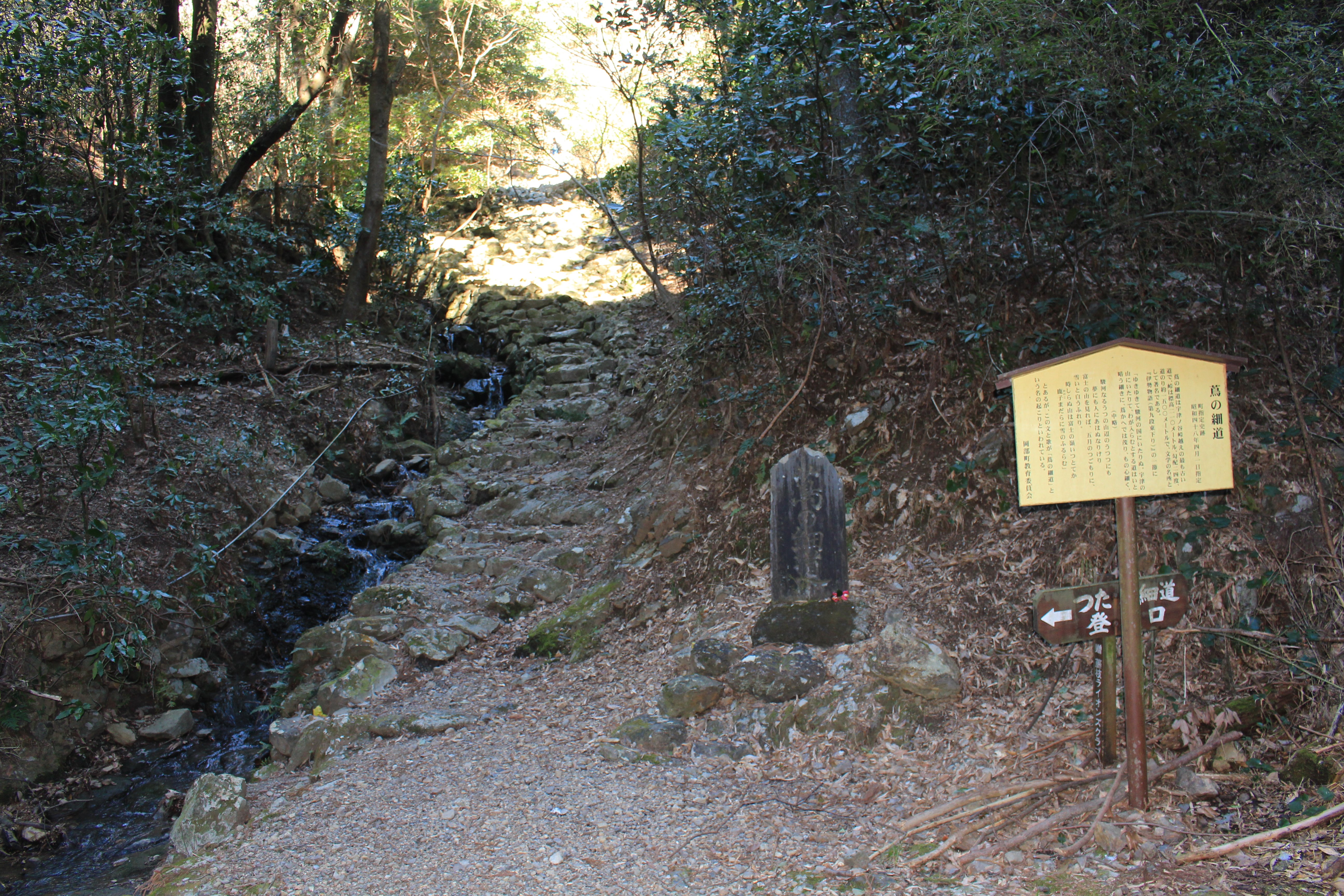 Southern entrance of Tsuta no Hosomichi, a historical road in Fujieda, Shizuoka prefecture, Japan.